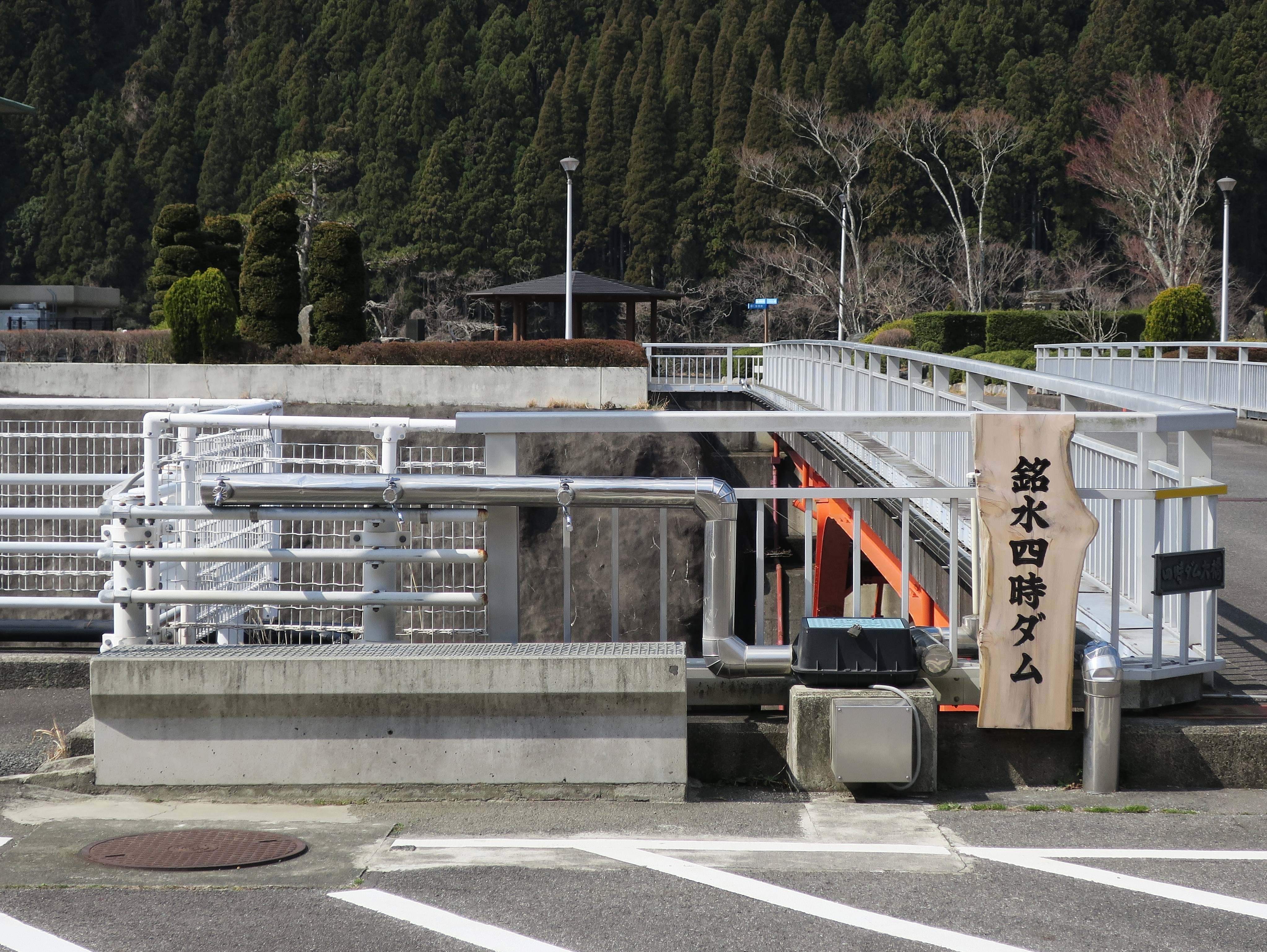 Shitoki Dam.